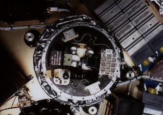 Surface-Science Package from Huygens